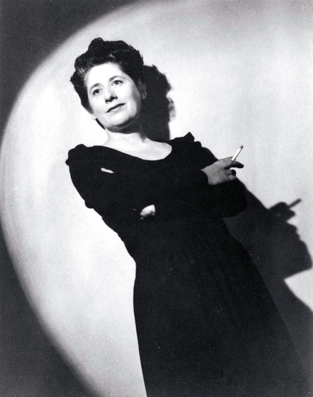 Ngaio Marsh photographed during the 1940s : "Ngaio in the spotlight"